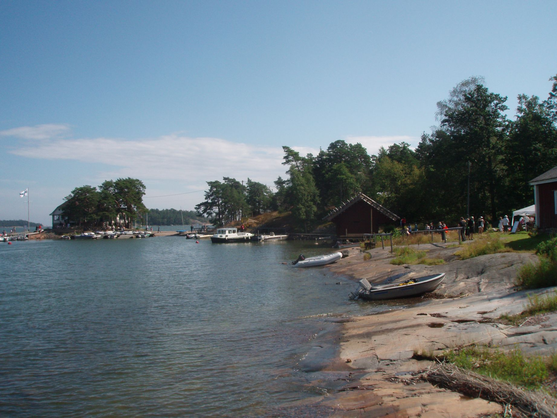 Buildings in the island Pentala in Espoo. To the left the yacht club Esbo segelförening and to the right different old fishing huts